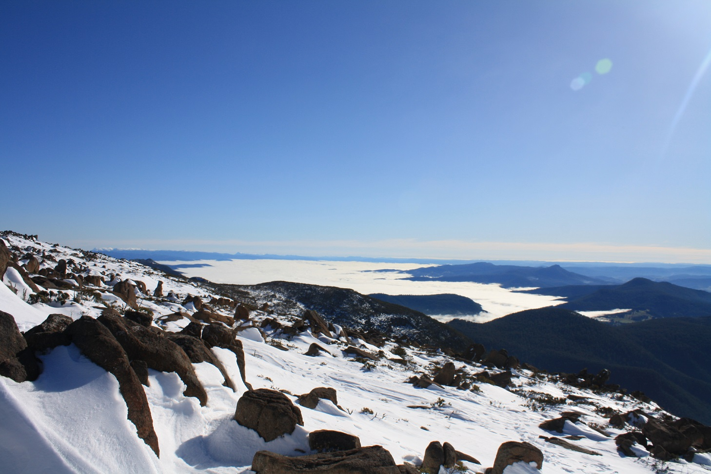 Pinnacle of Mount Wellington Northerly Aspect